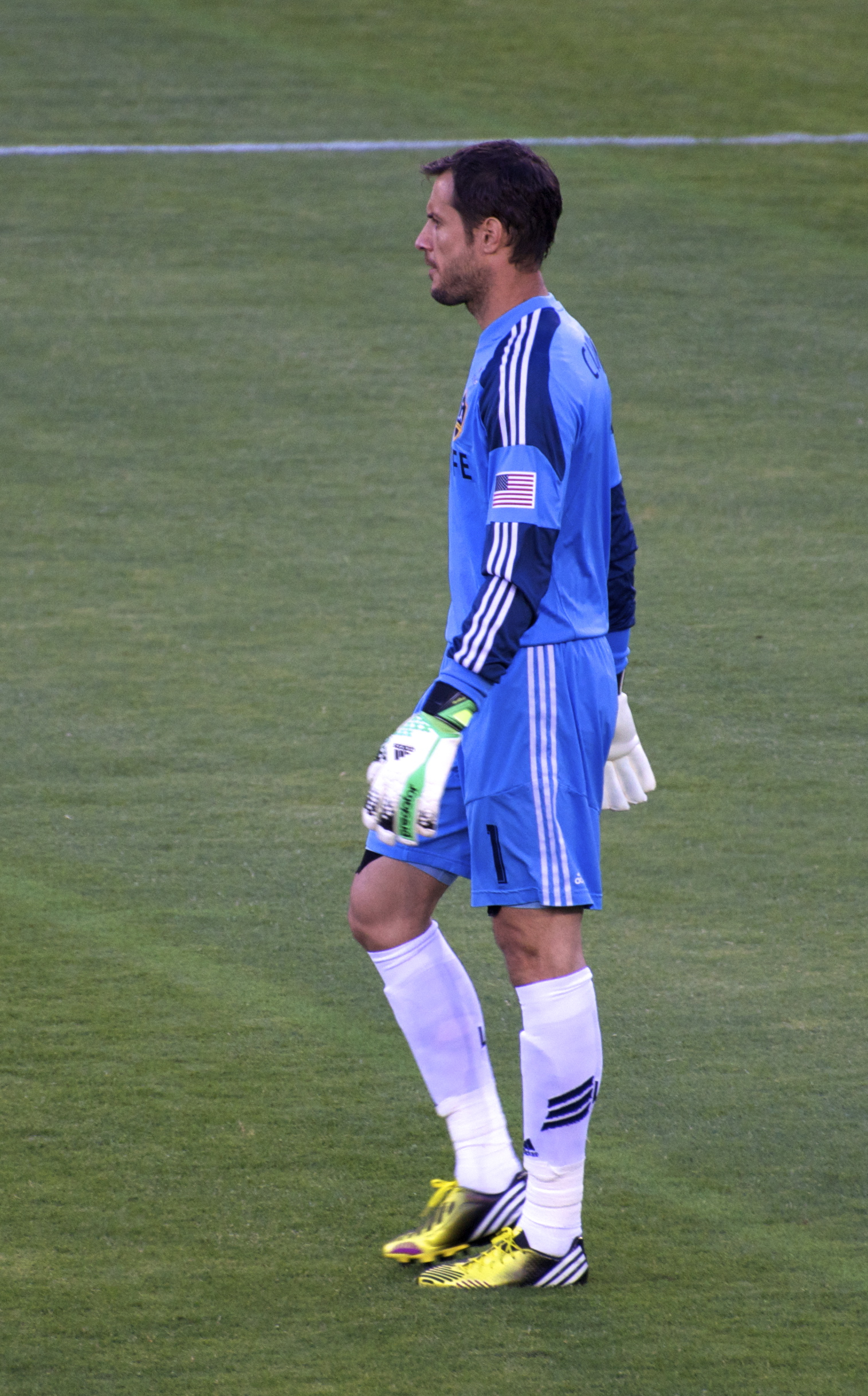 Carlo Cudicini, Stanford Stadium, LA Galaxy vs SJ Earthquakes, Saturday 2013-06-29